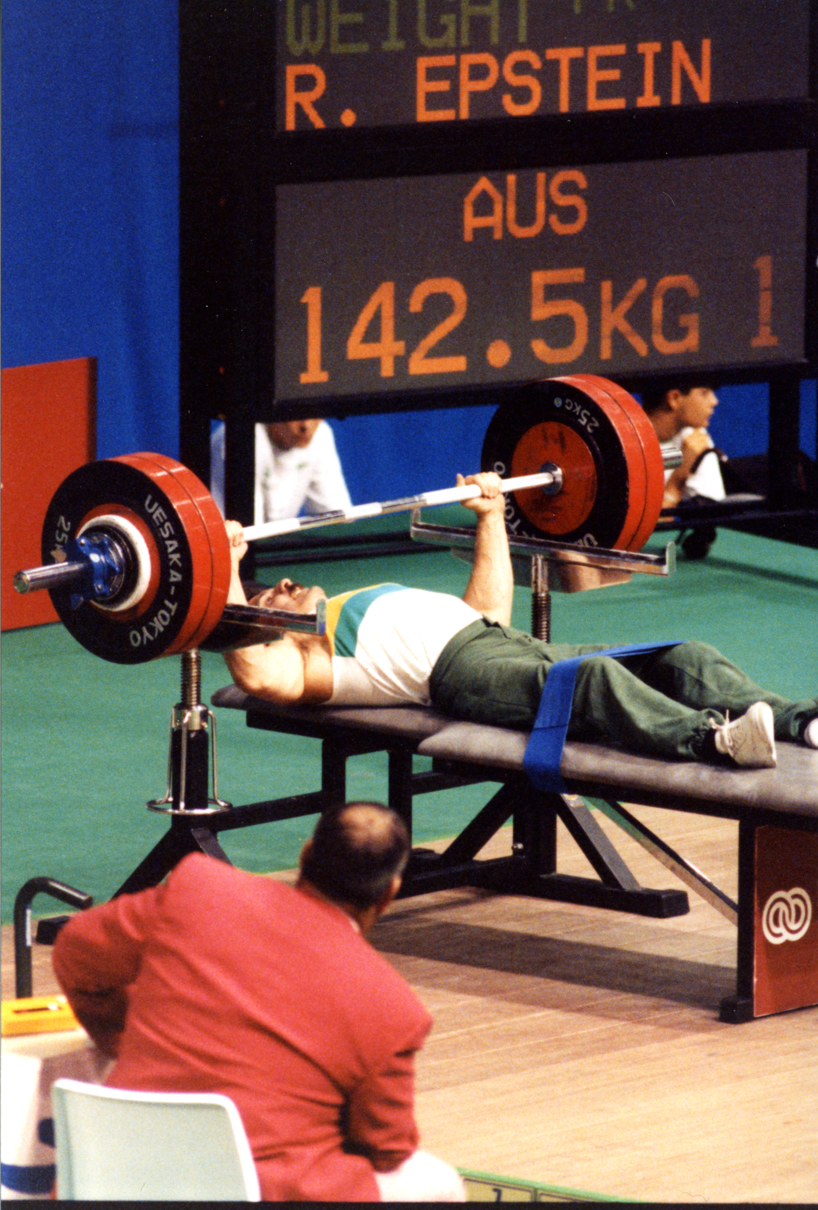 Australian weightlifter Ramon (Ray) Epstein at the 1992 Paralympic Games in Barcelona.